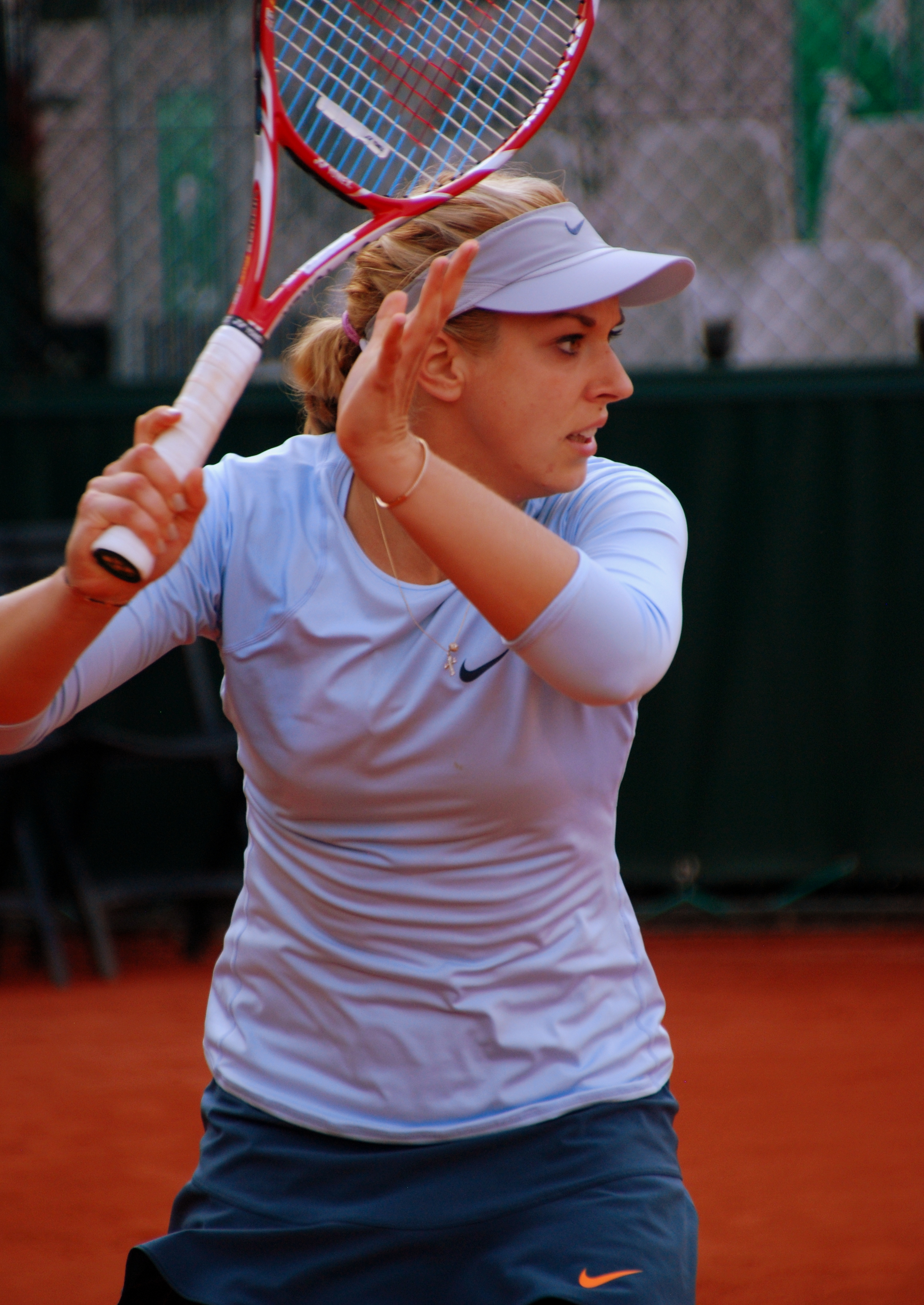 Sabine Lisicki lines up a shot at the 2013 French Open (Tournoi de Roland-Garros)